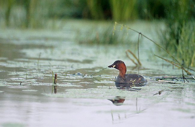 Little Grebe